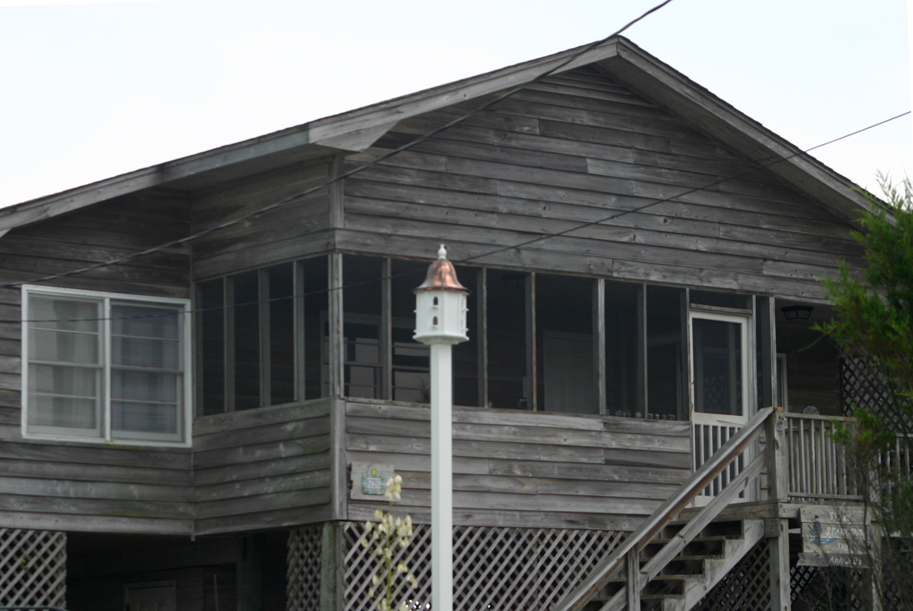 An "arrogantly shabby" surviving home from pre-Hurricane Hugo (1989) days. Pawley's Island, South Carolina. After Hugo the house was renamed " Still Standing" . The reason for the name change was that 9 houses to the north and 10 houses to the south were wiped off the island.